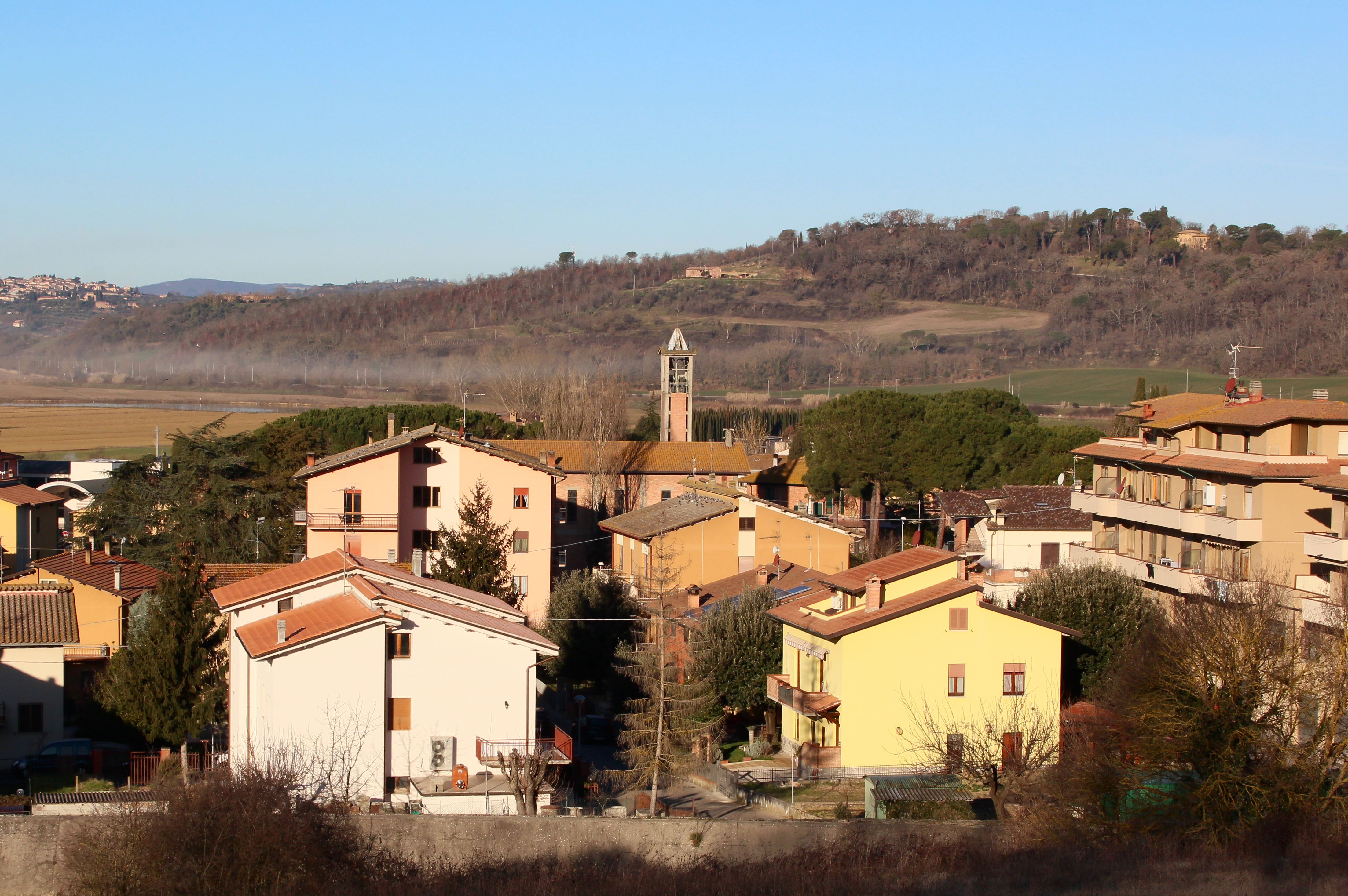 Moiano, hamlet of Città della Pieve, Province of Perugia, Umbria, Italy